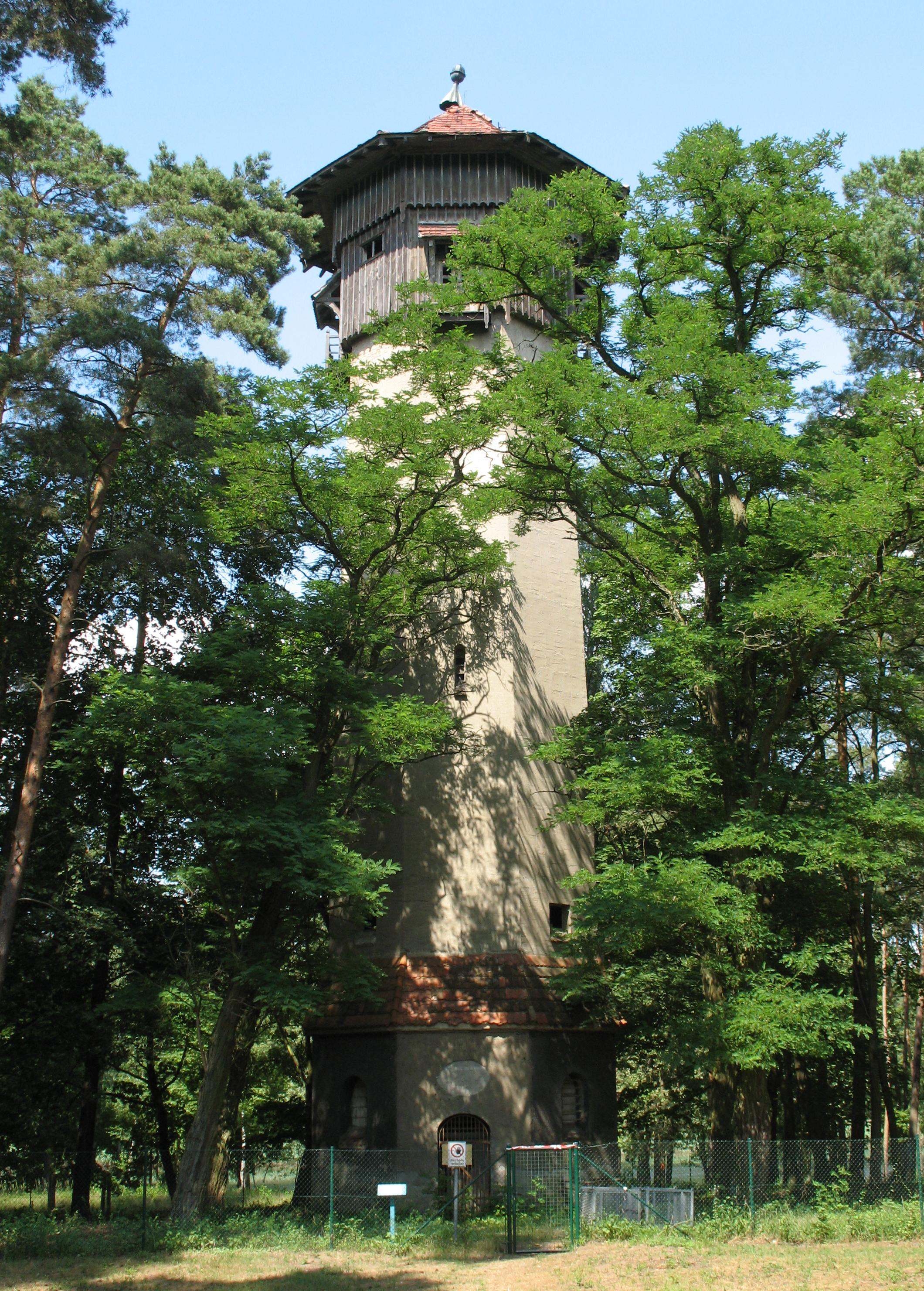 Water tower in Kremmen-Sommerfeld in Brandenburg, Germany